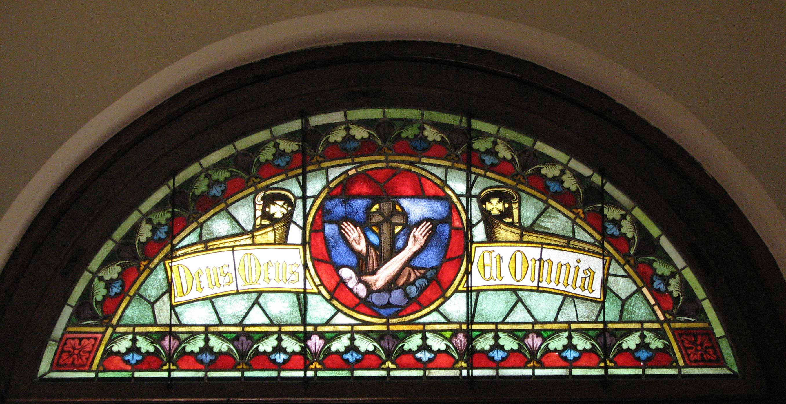 Stained glass window, the Basilica of St. Louis King in Katowice Poland, XX century